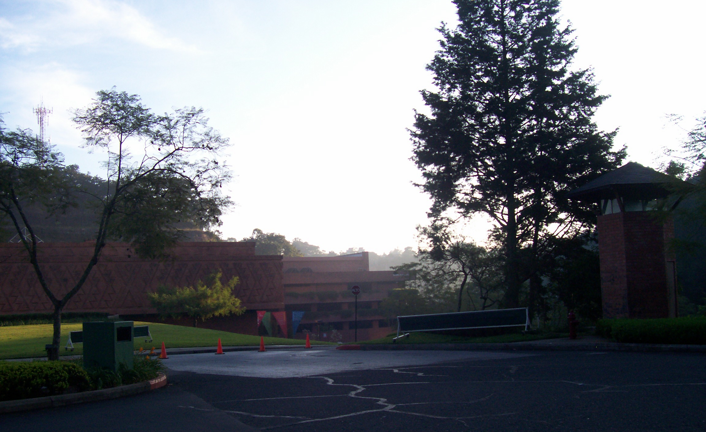 Panorámica entrada Universidad Francisco Marroquín